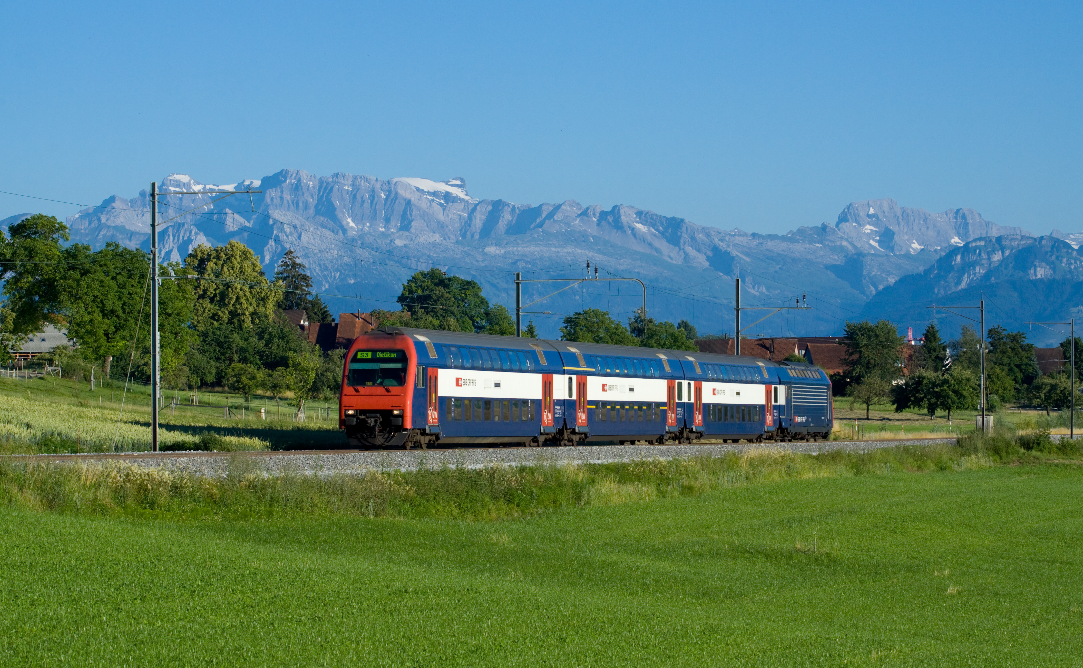 A Zurich S-Bahn double deck train "DPZ", consisting of a Bt control car (at the front), AB and B coaches and an Re 450 locomotive, on the S3 service. The picture was taken between Kempten (near Wetzikon) and Pfäffikon ZH.